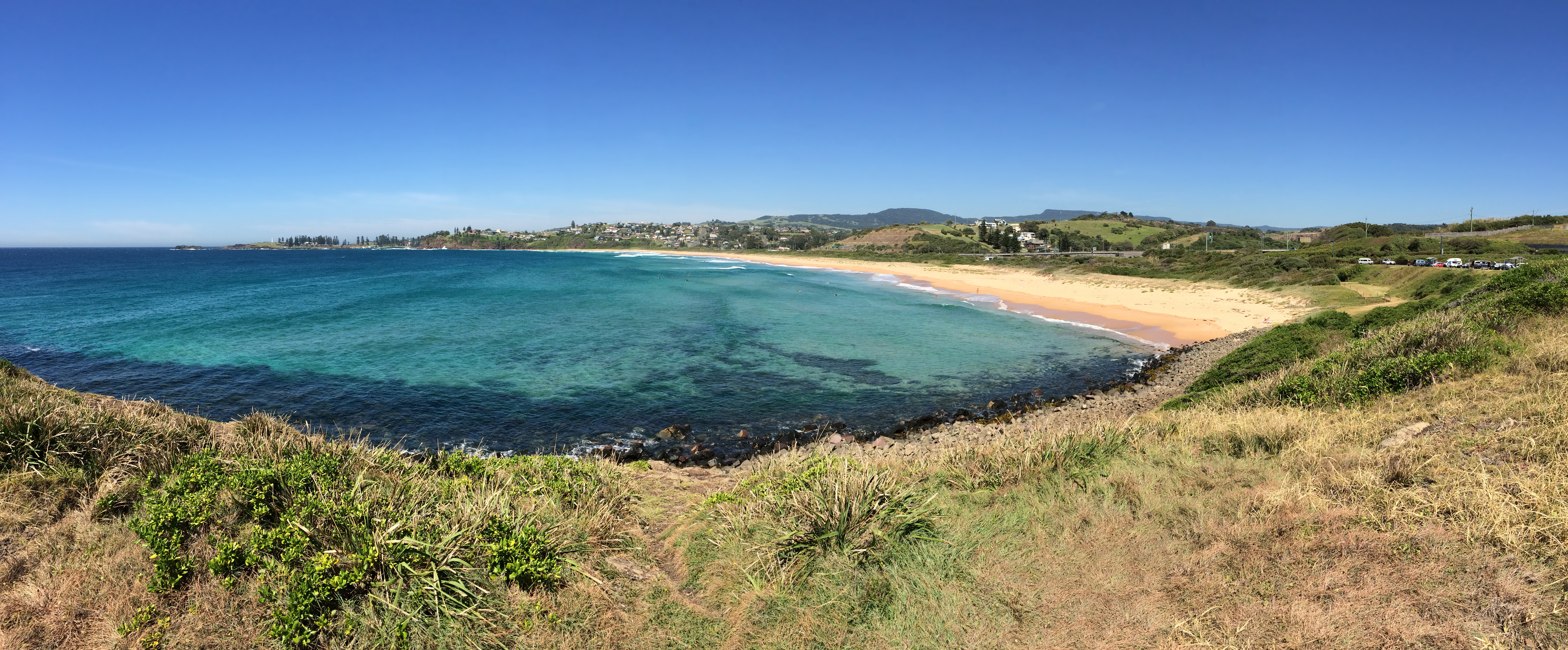 A panoramic of Bombo, New South Wales, taken from the trail leading to the Bombo Quarry during a completely clear, late summer morning. In the image, Bombo Beach, also known as Kiama Beach, is featured prominently, along with the surrounding bay. In the background, residential houses in the Illawarra township of Kiama, New South Wales. The peninsula where the Kiama Blowhole can be found can be seen in the background at left.